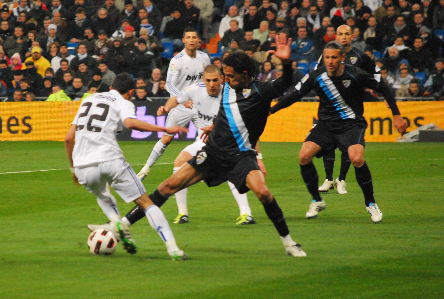 Weligton and Martín Demichelis, Málaga CF.